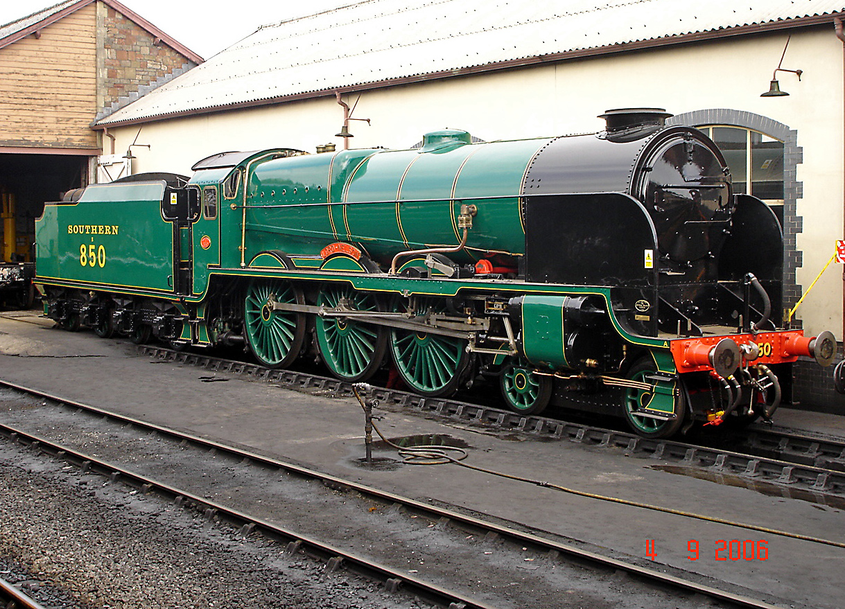 Southern Railway (UK) 'Lord Nelson' class 4-6-0 No. 815 Lord Nelson, at Minehead station.